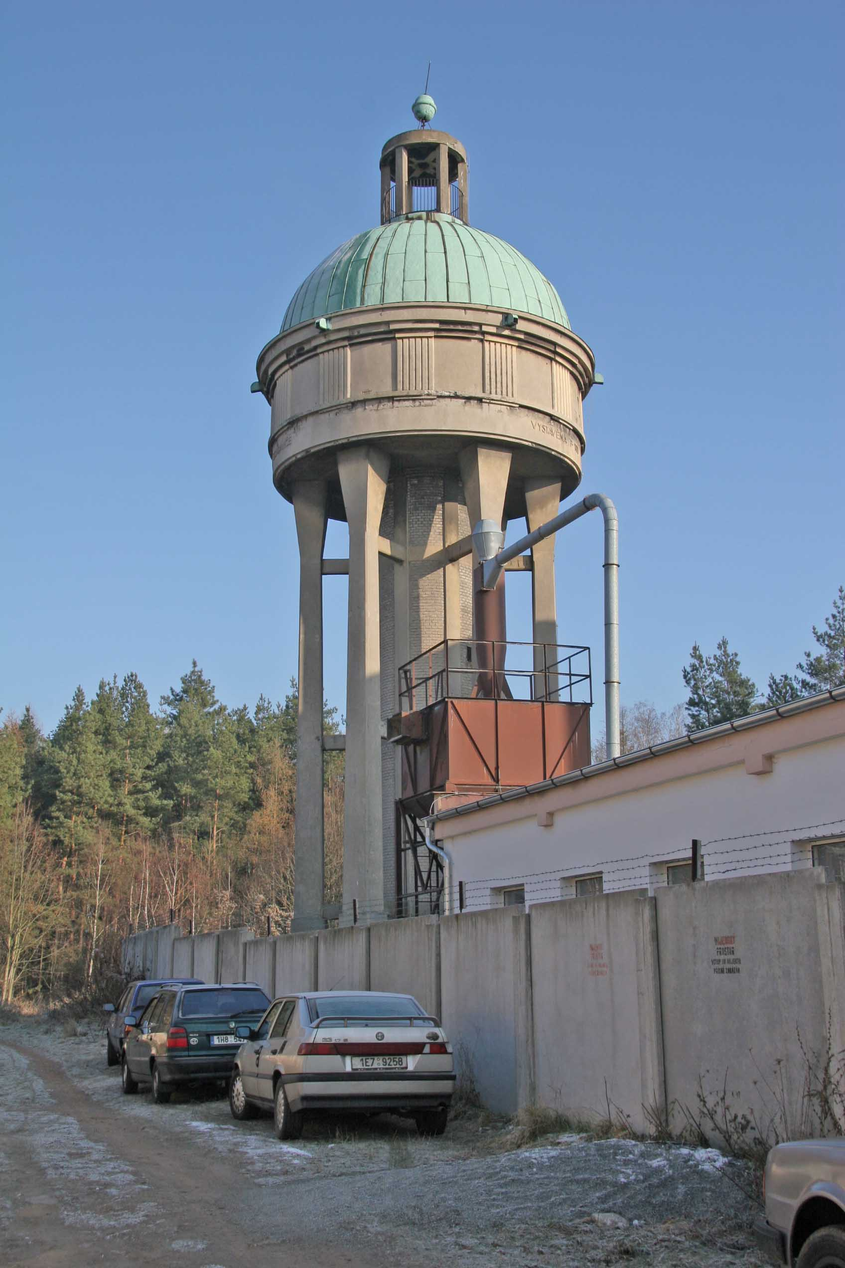 Water tower (1910) by Josef Gočár in Lázně Bohdaneč, Czech Republic.